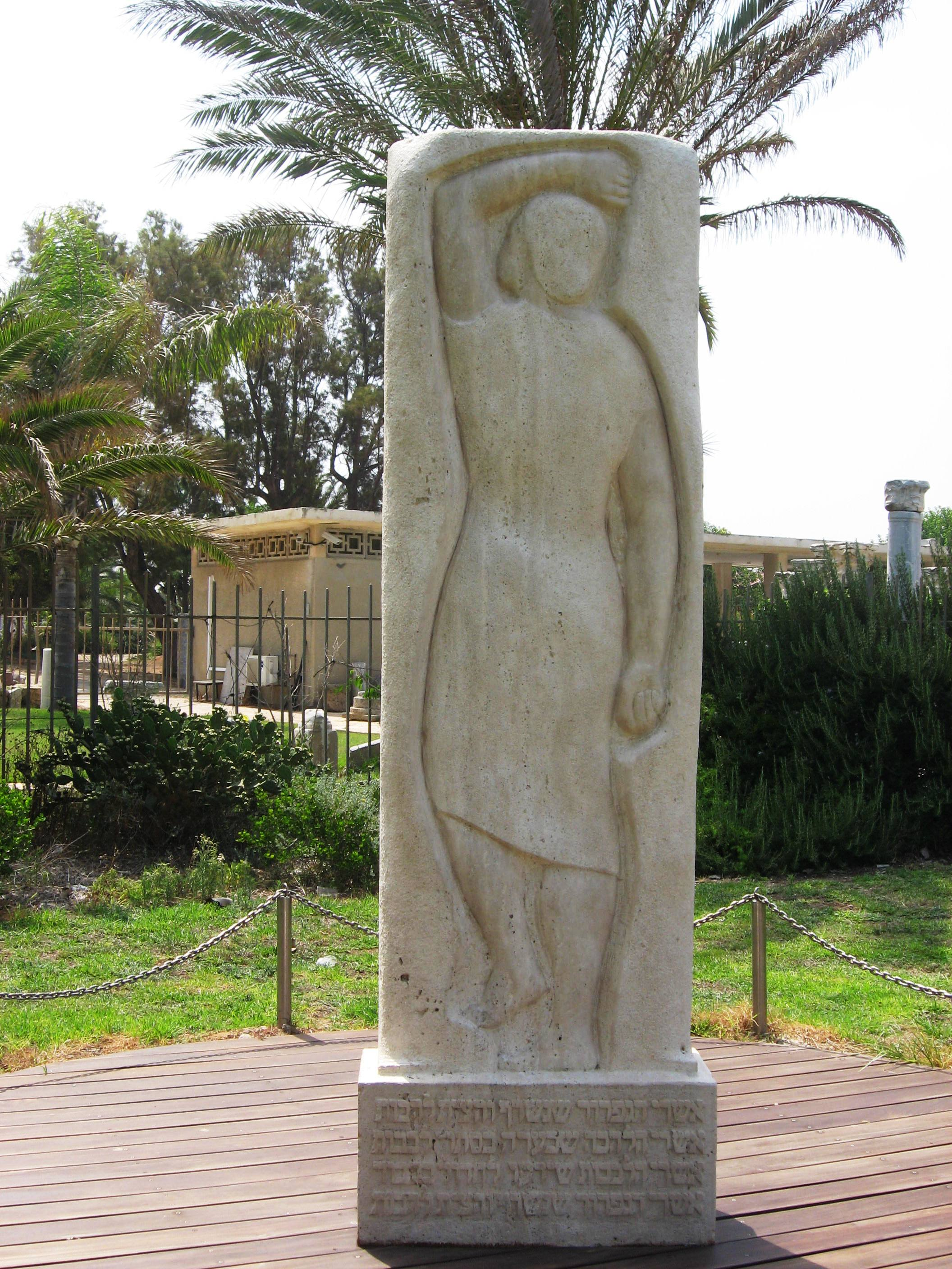 The monument in memory of Hannah Szenes, Geography of Israel